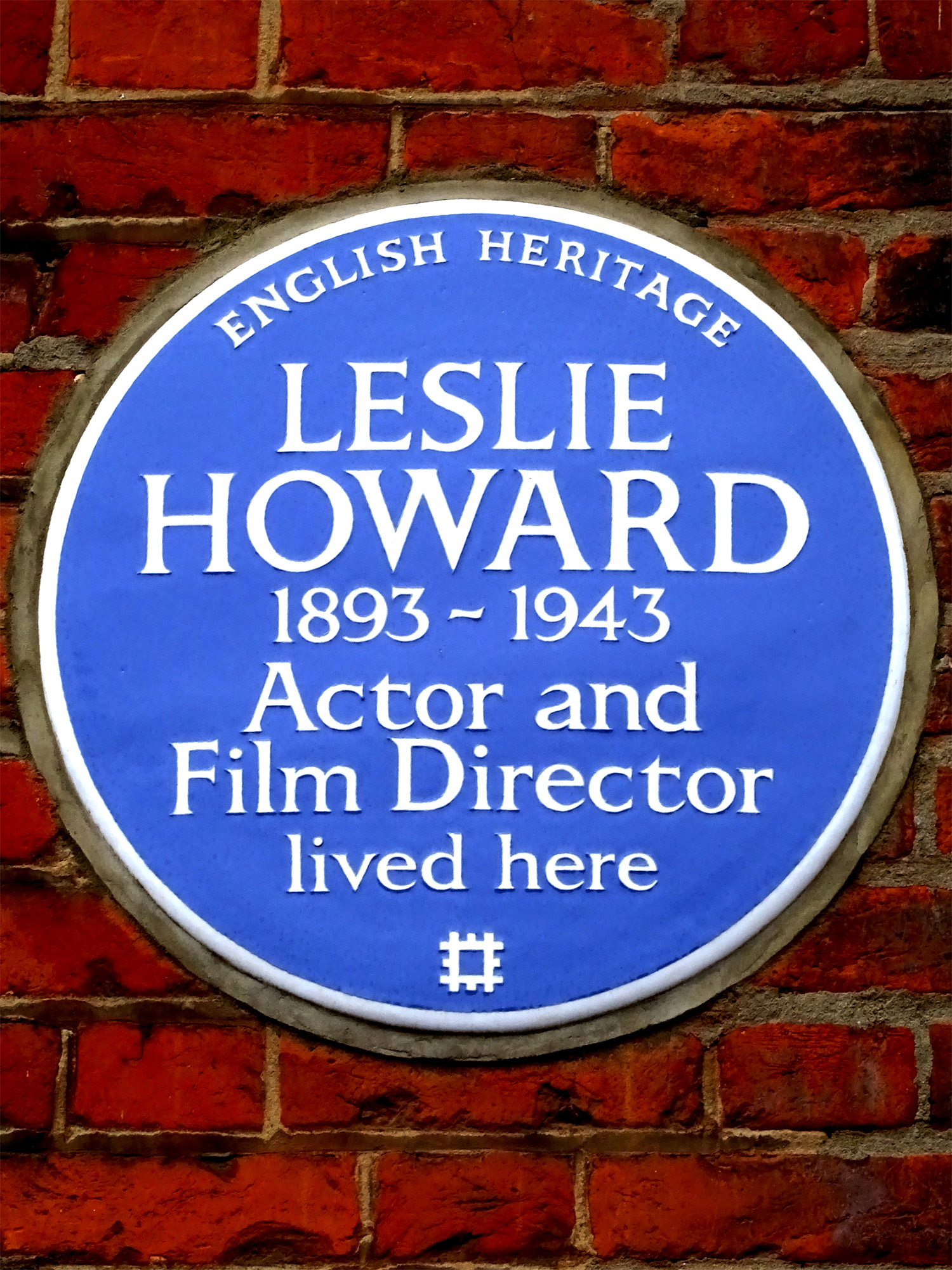 Blue plaque erected in 2013 by English Heritage at 45 Farquhar Road, Upper Norwood, London SE19 1SS, London Borough of Southwark